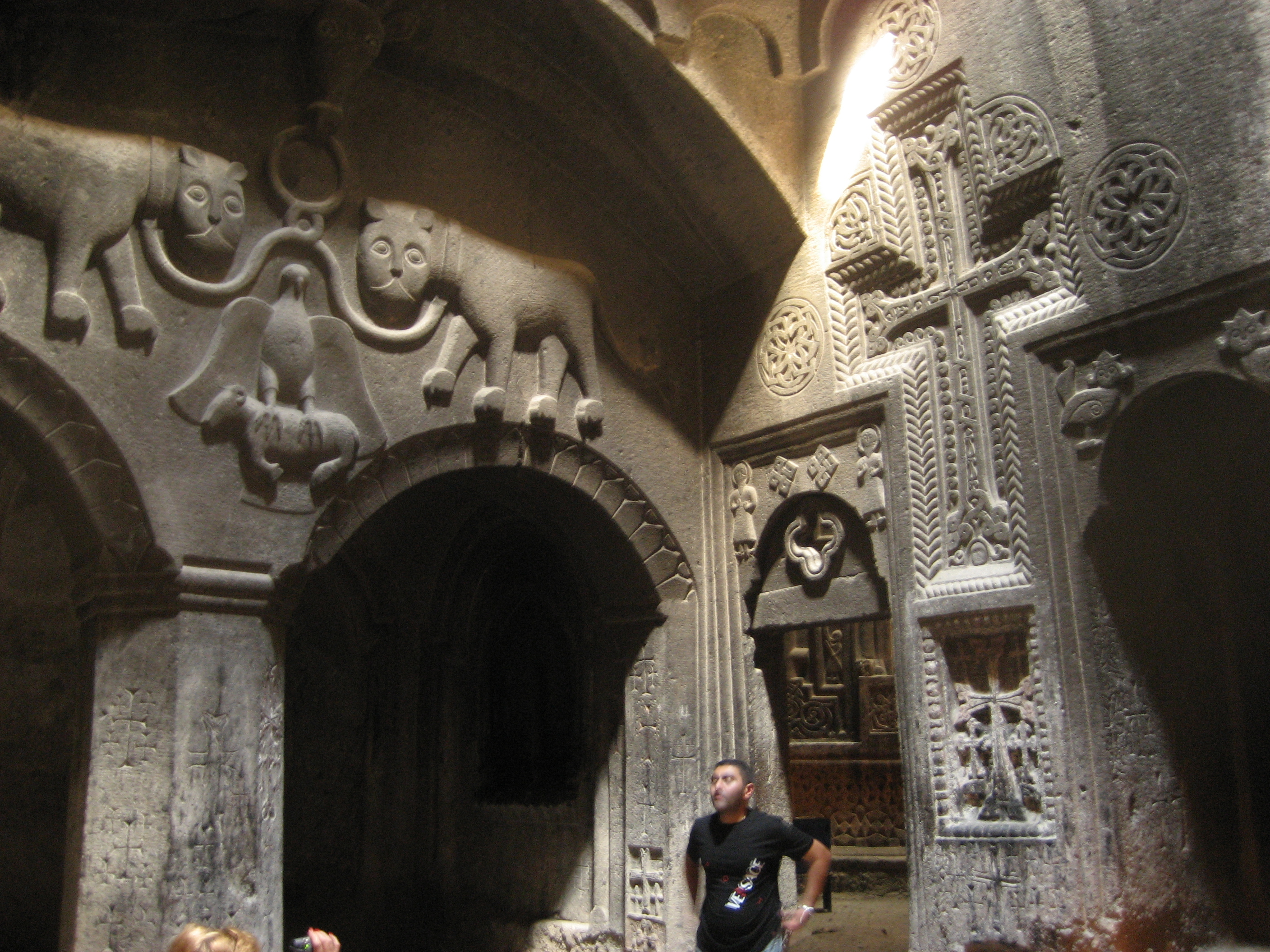 Lions and cross reliefs of Geghard Monastery in Armenia (UNESCO World Heritage Site).